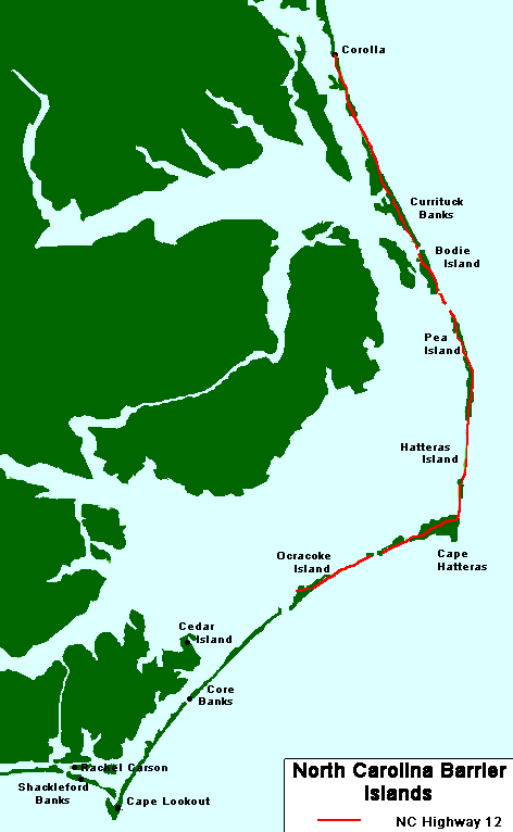 A map of NC's barrier islands